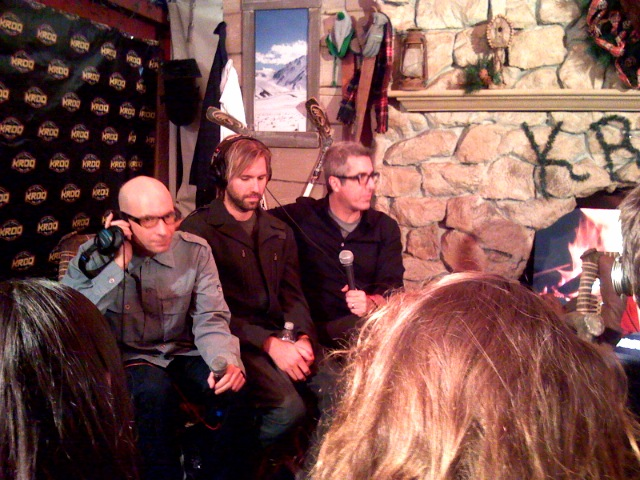 Members of Bad Religion